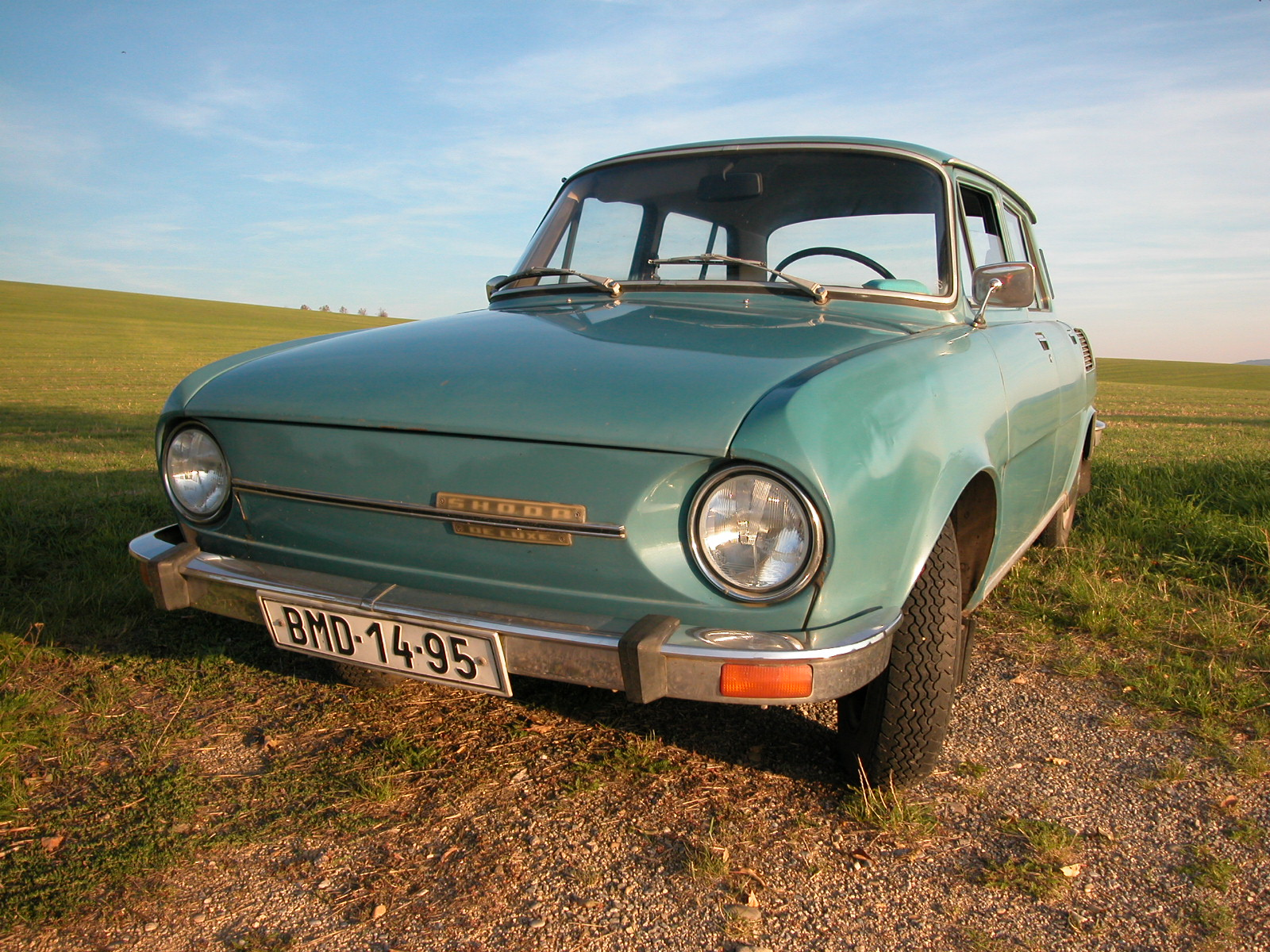 skoda 100 L, 1974